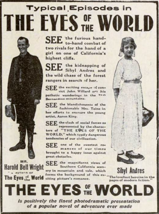 Advertisement for the American drama film The Eyes of the World (1917) with novel author Harold Bell Wright and Jane Novak as Sybil Andres, on page 19 of the May 3, 1919 Exhibitors Herald.